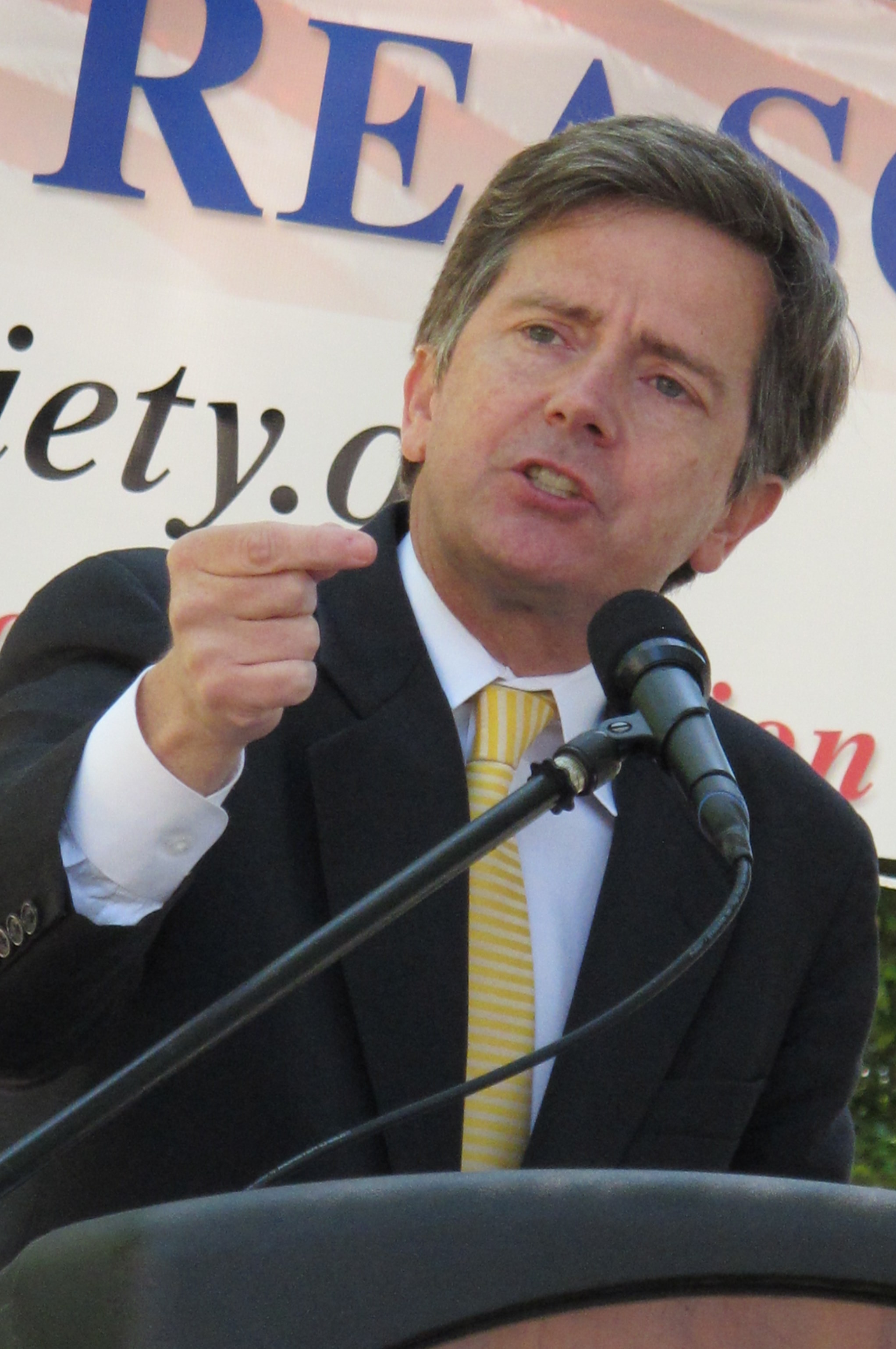 May 5, 2011 Raleigh, NC